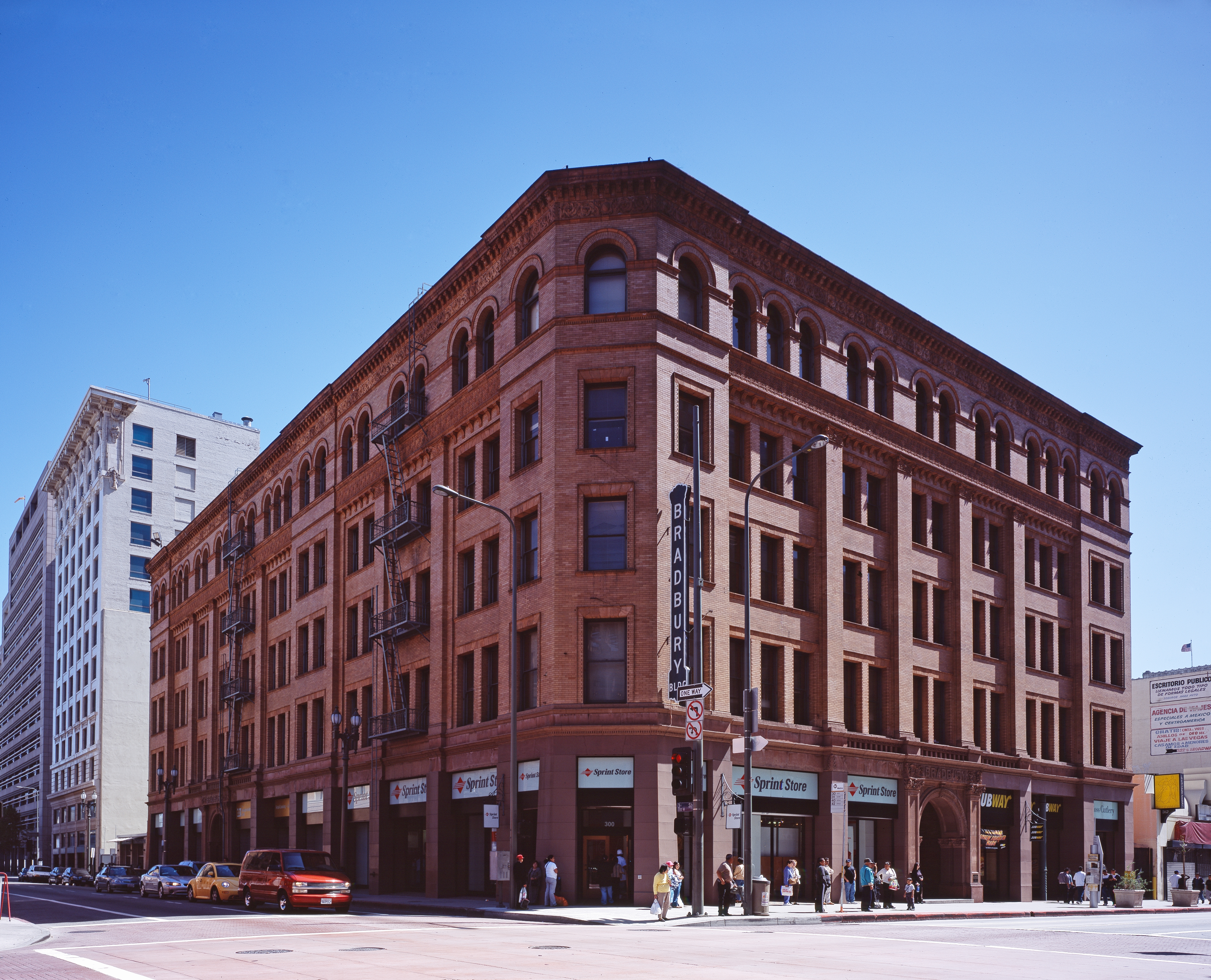 Photographs of buildings in Los Angeles, California and the surrounding area